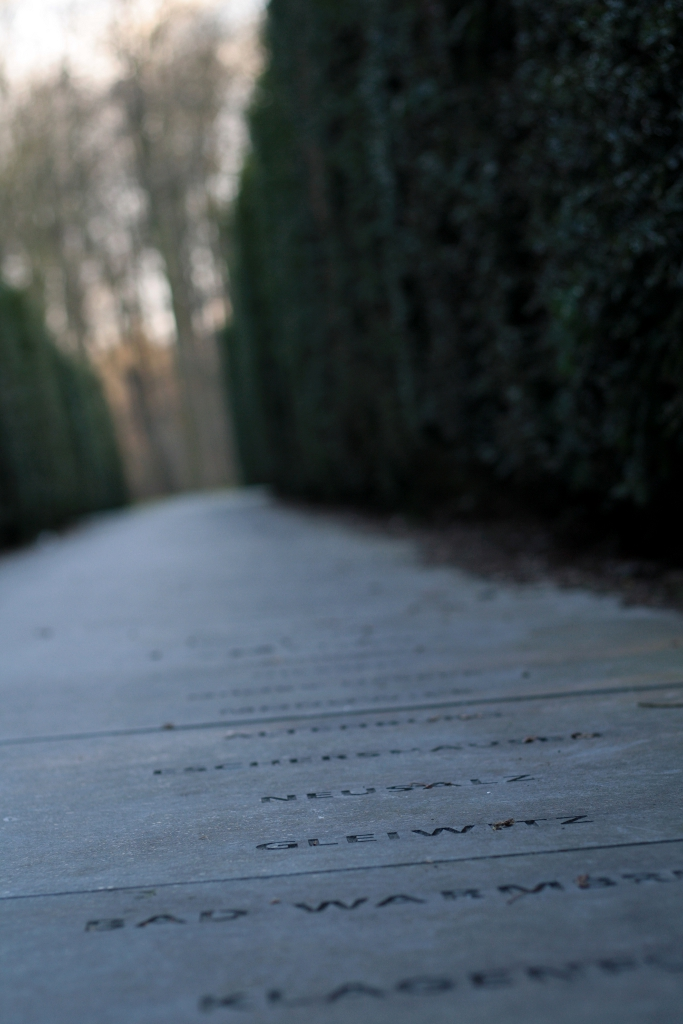 National Dachau Monument in Amsterdam.